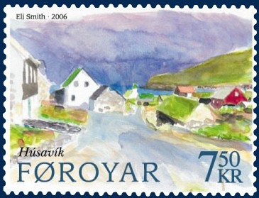 Stamp FO 575 of the Faroe Islands: The Isle of Sandoy: Húsavík